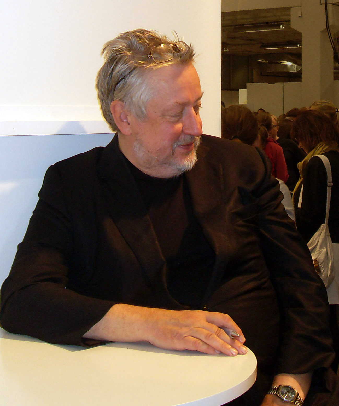 Swedish author Leif G.W. Persson at the 2008 Gothenburg Book fair.